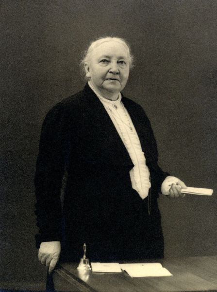 Portrait of the Danish educator and women's rights activist Marie Egeberg from Vejle